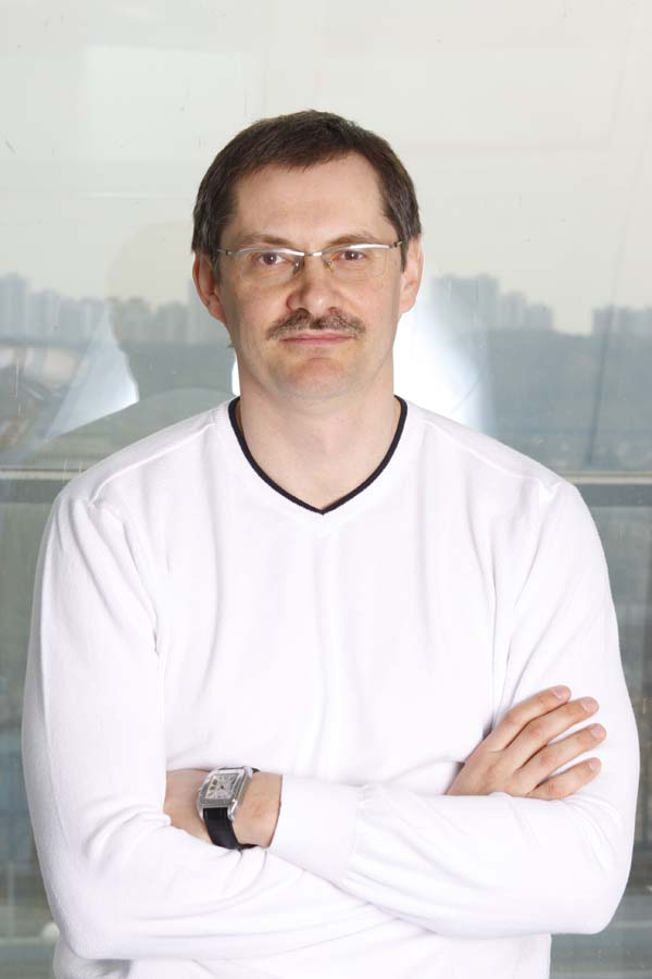 Sergei Bazarevich,russian professional basketball player